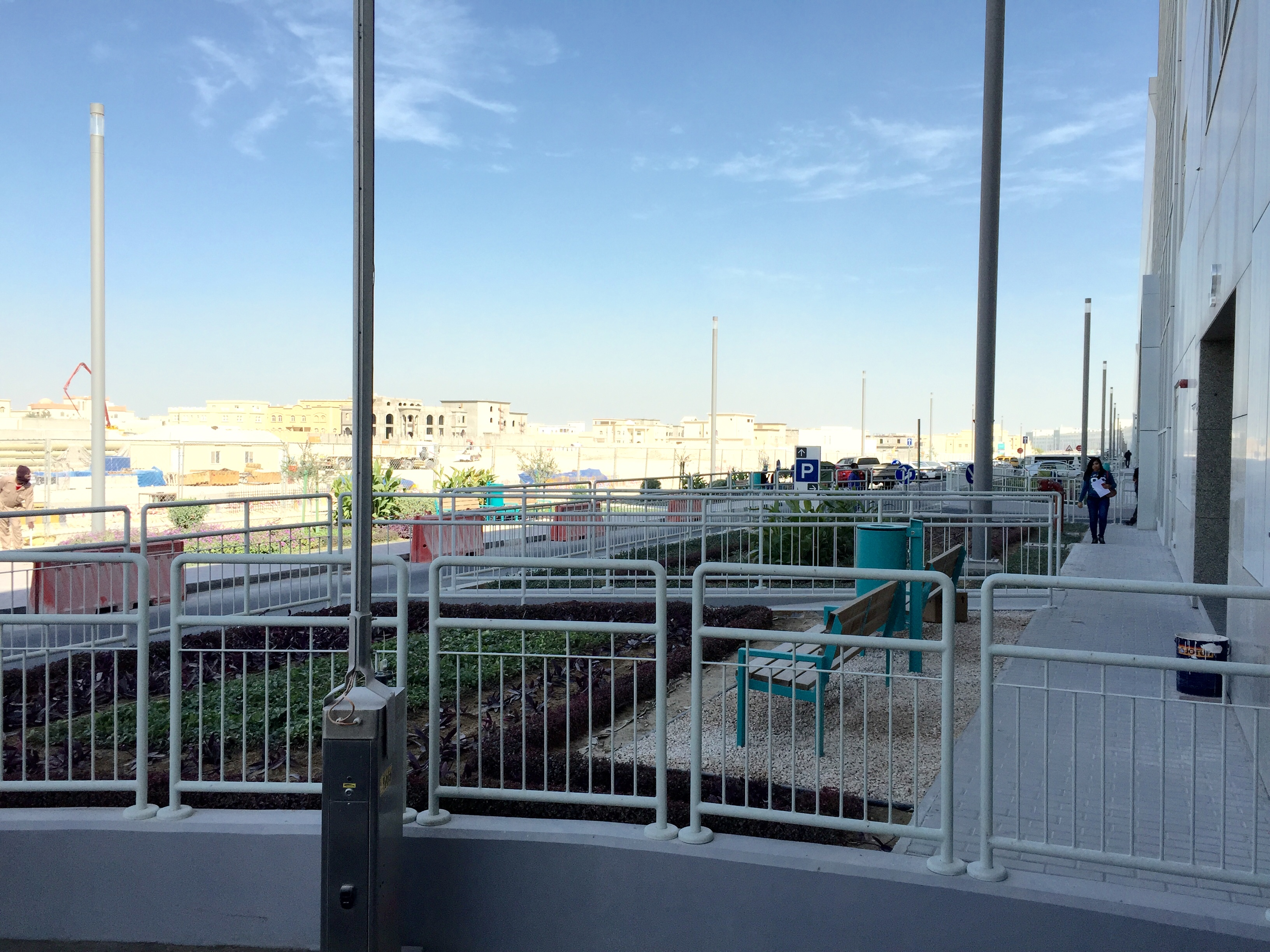 Barwa Commercial Avenue in Doha, Qatar. Barwa Commercial Avenue is an 8 km-long commercial hub located along East Industrial Road, on the border between Industrial Area and Umm Al Seneem/Ain Khaled.